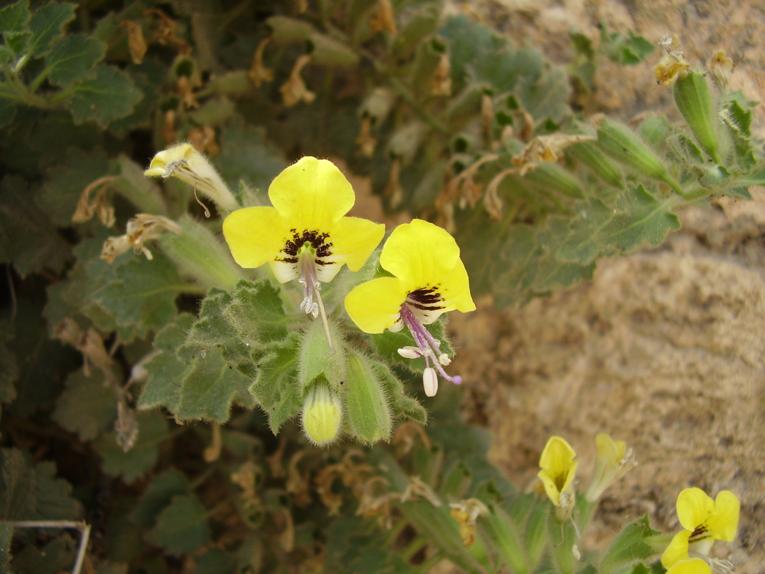 Flower of Golden Henbane (Hyoscyamus aureus) on the external wall of the Shuni fortress near Binyamina, Israel.